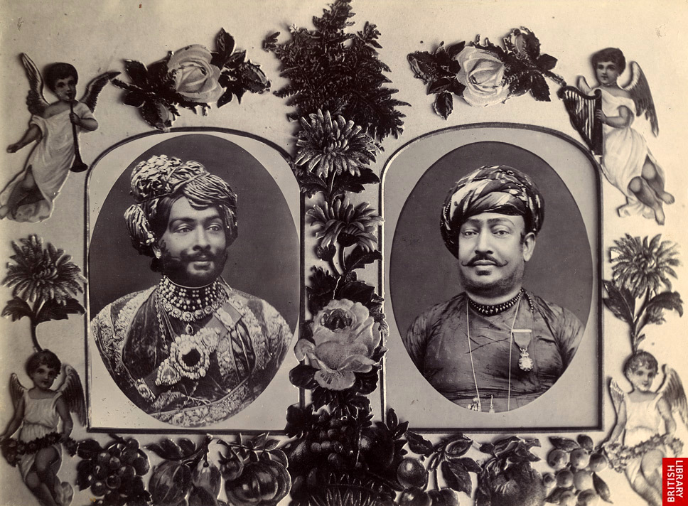 Mohammad Rasul Khanji, Nawab of Junagadh (r. 1892-1911), and Bahaduddinbhai Hasainbhai, Wazier, Junagadh, who was the state wazier under the previous ruler Bahadur Khan III (r.1882-1892) as well. Photograph, 1890s.